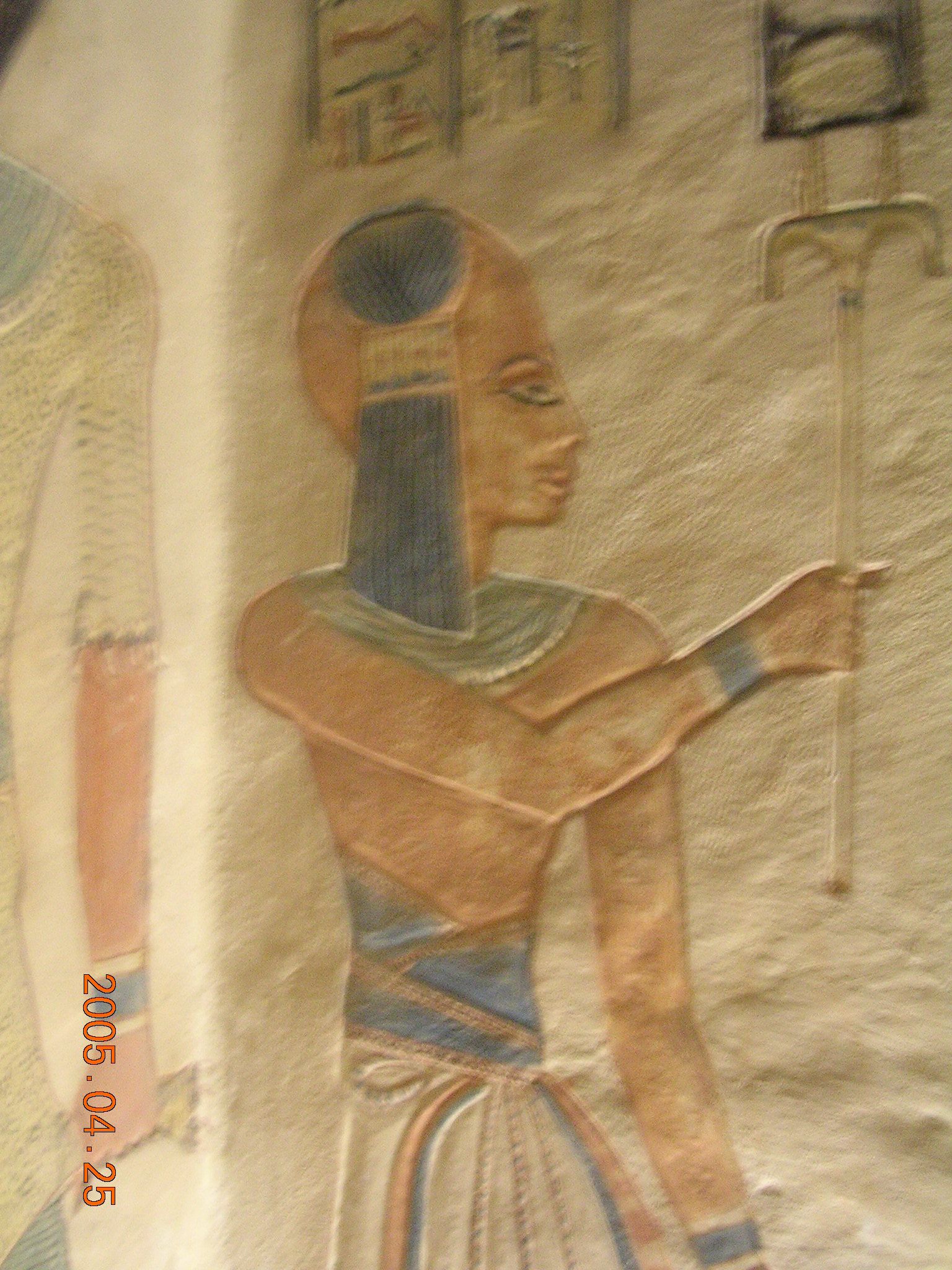 Prince Amunherkpeheshef, a son of Pharaoh Ramesses III (20th dynasty). From his tomb in Valley of the Queens